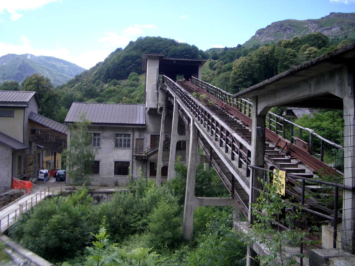 Old plant connected to the iron mine , Traversella, Torino, Italy